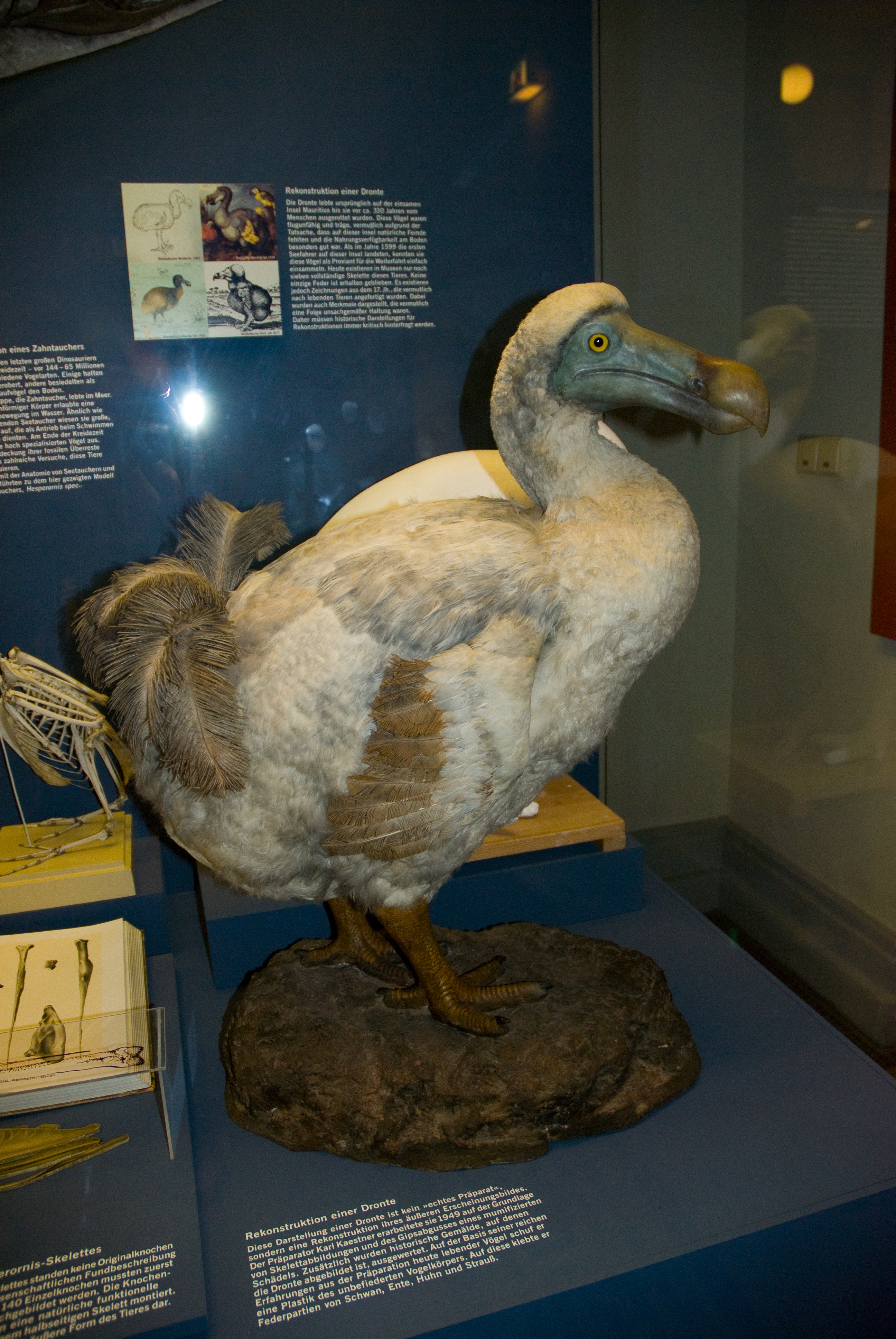 A rogue taxidermy specimen of a Dodo at the Museum für Naturkunde (Natural History Museum), Berlin, Germany.